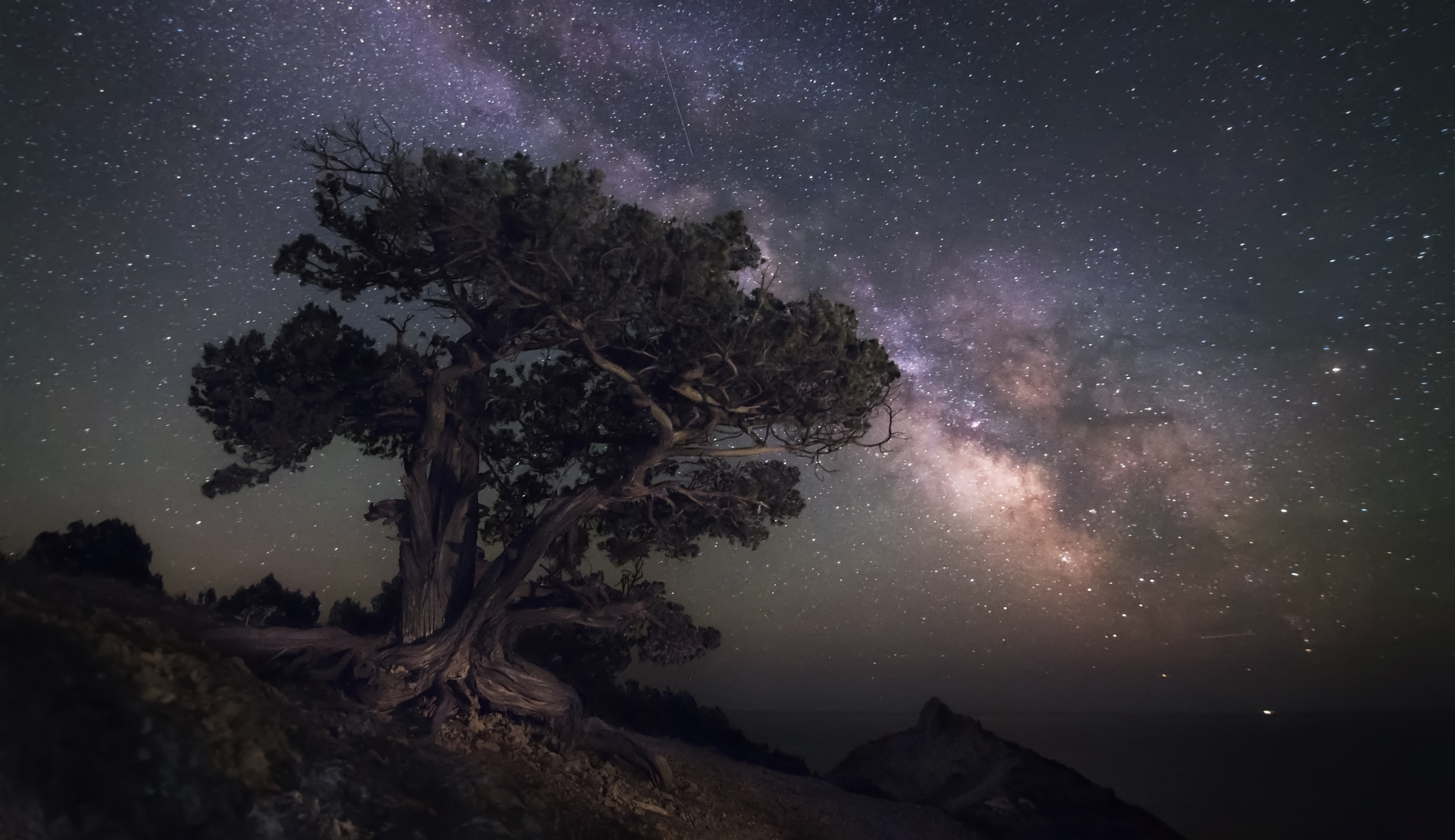 Juniper tree in Zakaznik Novyi Svit, Republic of Crimea This object is located on the Crimean Peninsula and recognized as a protected area by both Russia and Ukraine under the ID: 8200023 / 01-117-5011, respectively. The legal status of the Crimean region is currently disputed.